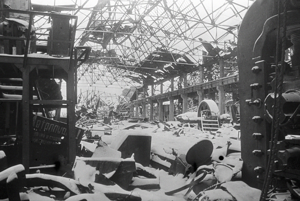 “The ruins of Stalingrad”. "Red October" factory after bombing.